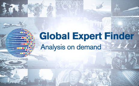 Global Expert Finder Logo